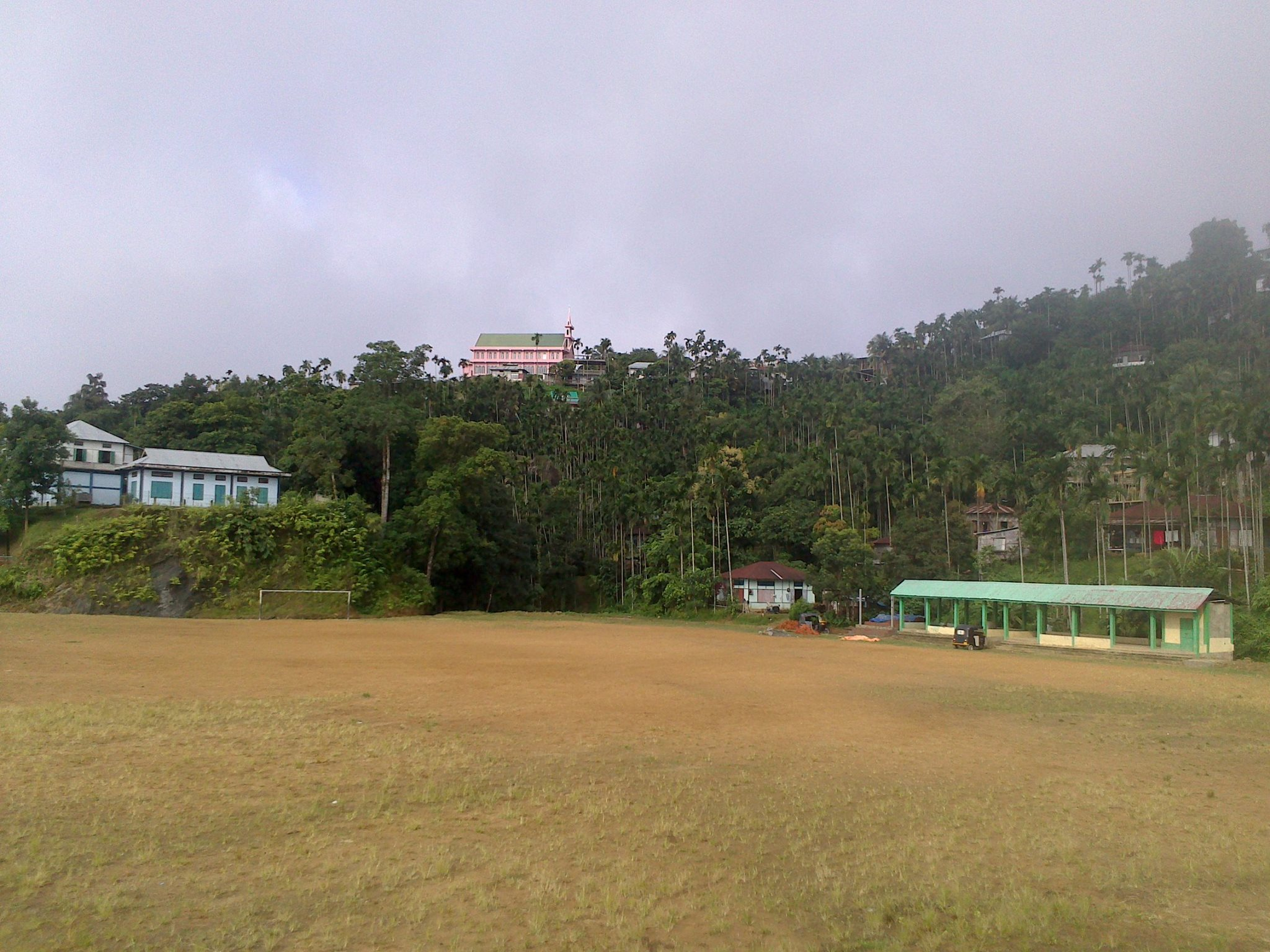 Bilkhawthlir Playground